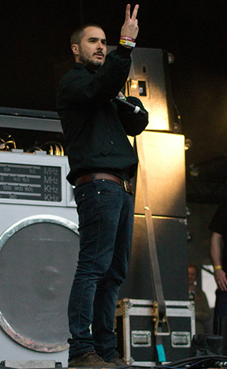 Zane Lowe at RockNess 2012 on June 10, 2012